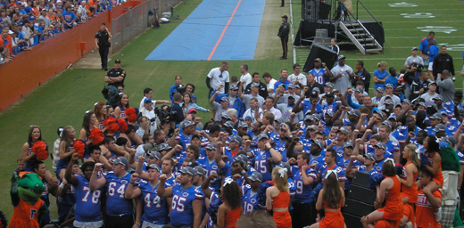 The 2008 Florida Gators football team celebrates in Florida Field